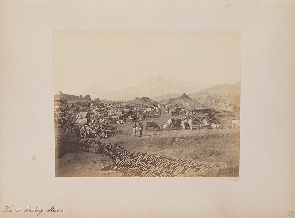 Title: Wassind Railway Station Creator: Johnson, William Date: ca. 1855-1862 Series: Photographs of Western India. Volume II. Scenery, Public Buildings, &c. Part of: Photographs of Western India Place: Maharashtra, India Physical Description: 1 photographic print: part of 1 volume (100 albumen prints); 20 x 26 cm on 35 x 42 cm mount File: vault_ag2002_1407x_2_185_wassind_opt.jpg Rights: Please cite Southern Methodist University, Central University Libraries, DeGolyer Library when using this image file. A high-quality version of this file may be obtained for a fee by contacting . For more information and to view the image in high resolution, see: View Europe, India, and Asia: Photographs, Manuscripts, and Imprints